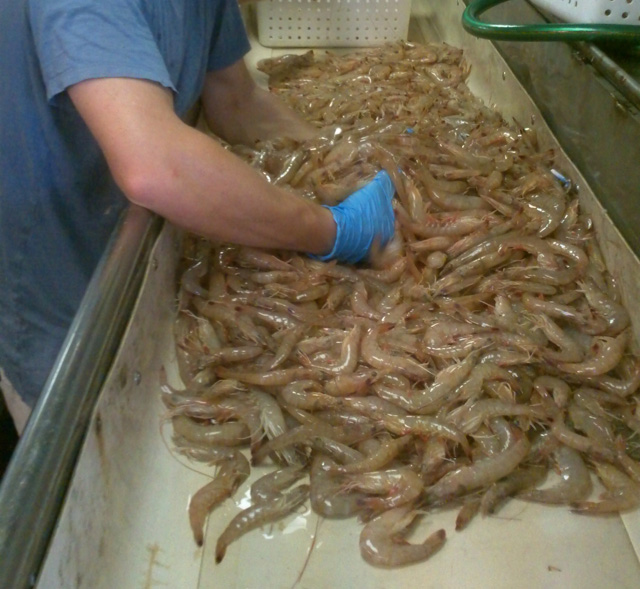 Survey catch of northern brown shrimp, Farfantepenaeus aztecus